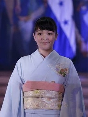 Princess Mako, photographed in Honduras